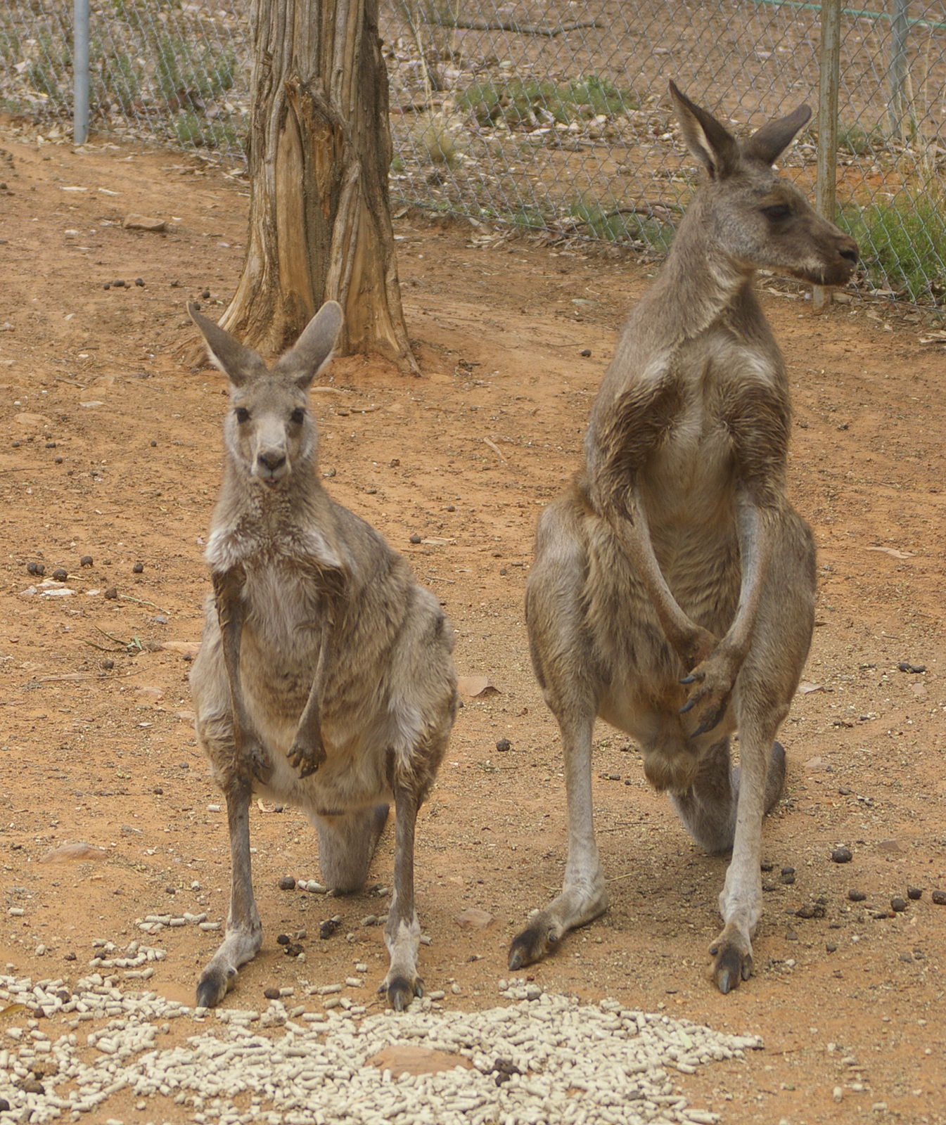 Female and male Eastern Grey Kangaroos (Macropus giganteus) at the Wagga Wagga Botanic Gardens Zoo.